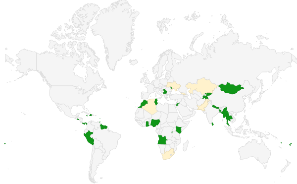 Wikipedia Zero countries as of September 6 2016